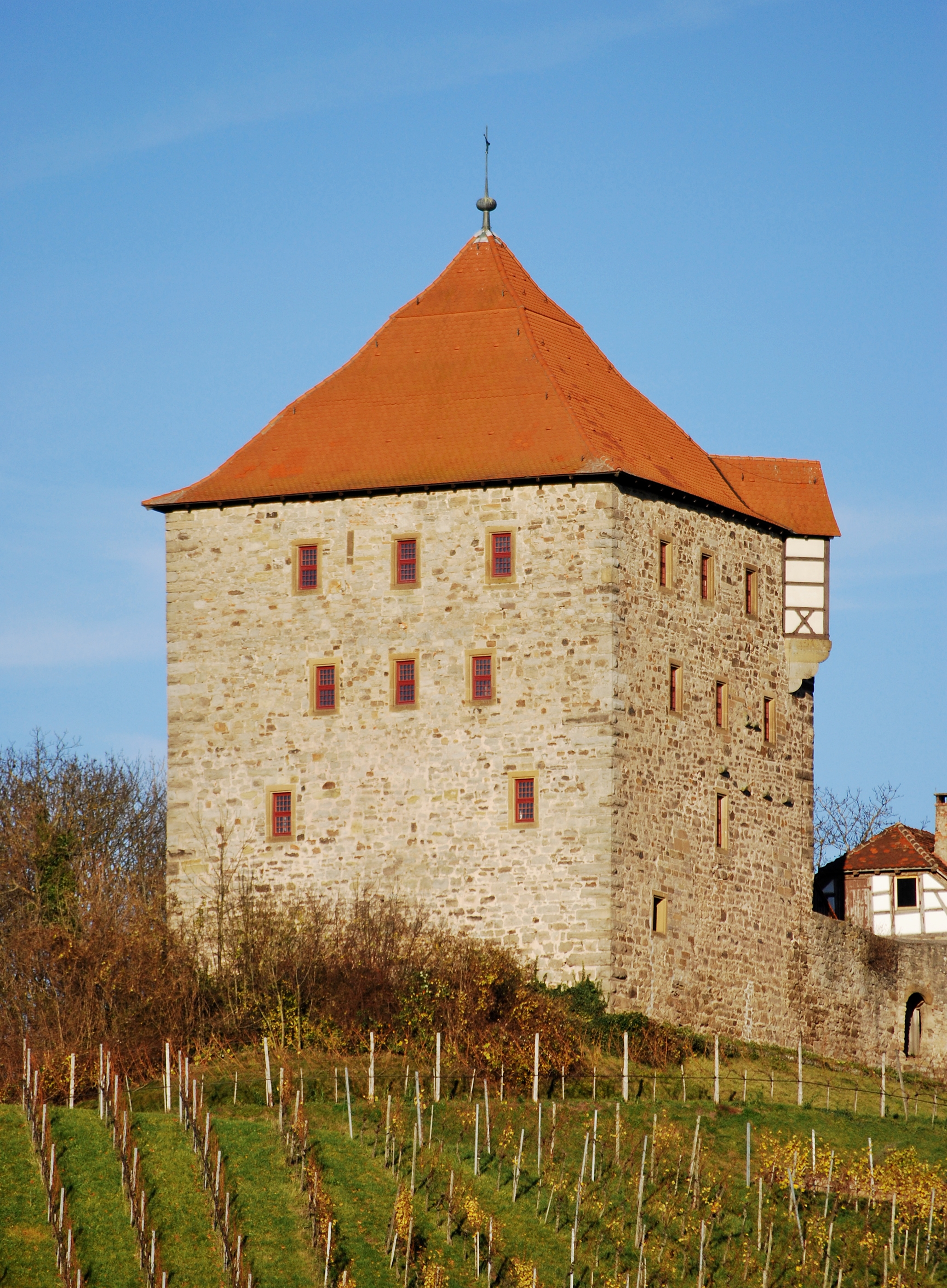 Tower of Wildeck castle, Baden-Württemberg.